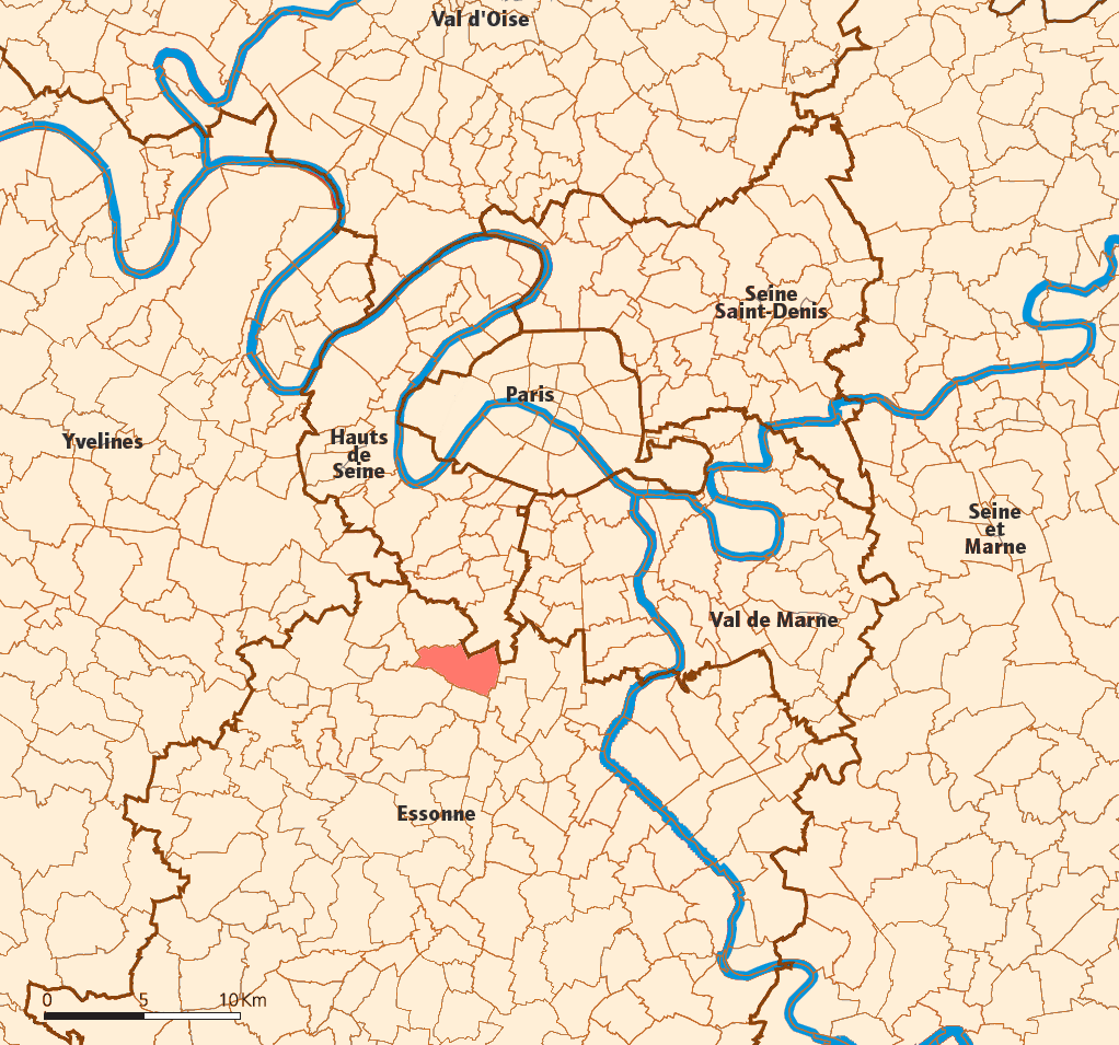 Created map myself.